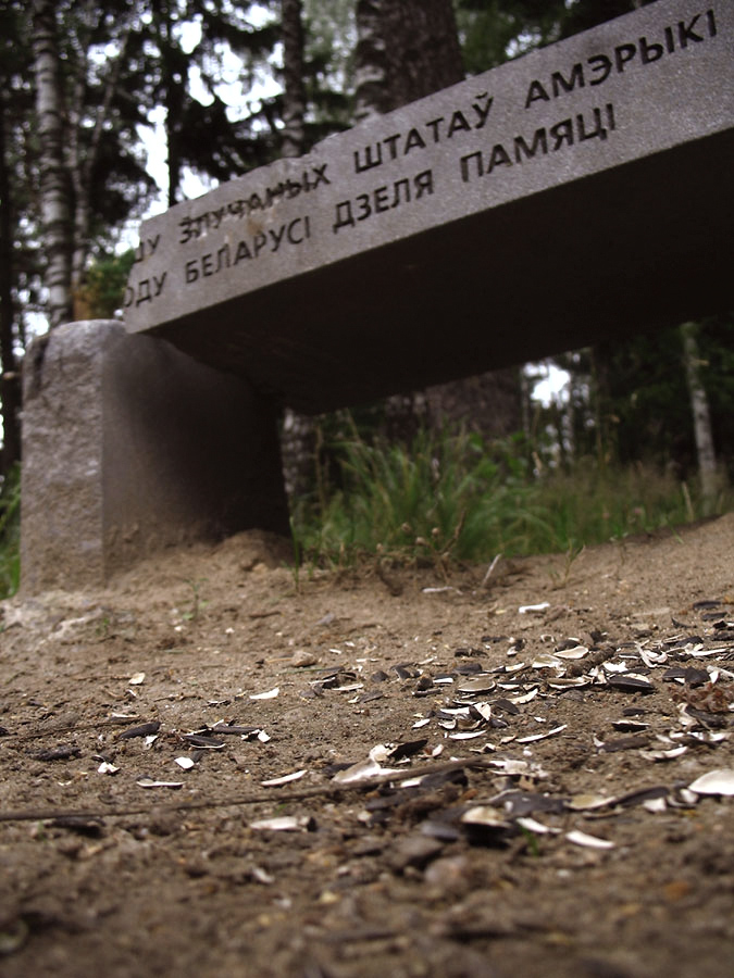 Kurapaty near Minsk is the place where mass executions of Belarusian civilians were carried out during the Stalin regime (1937 - 1941) Беларуская (тарашкевіца): Урочышча Курапаты пад Менскам — месца масавых расстрэлаў і пахаваньняў беларускіх цывільных асобаў, зьдзейсьненыя падчас сталінскіх рэпрэсіяў у 1937—1941 гадох